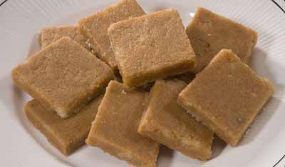 Sukhadi is an Indian Sweet mostly consumed by Jain Community. It is made from Flour, Jaggary and Ghee (clarified butter).